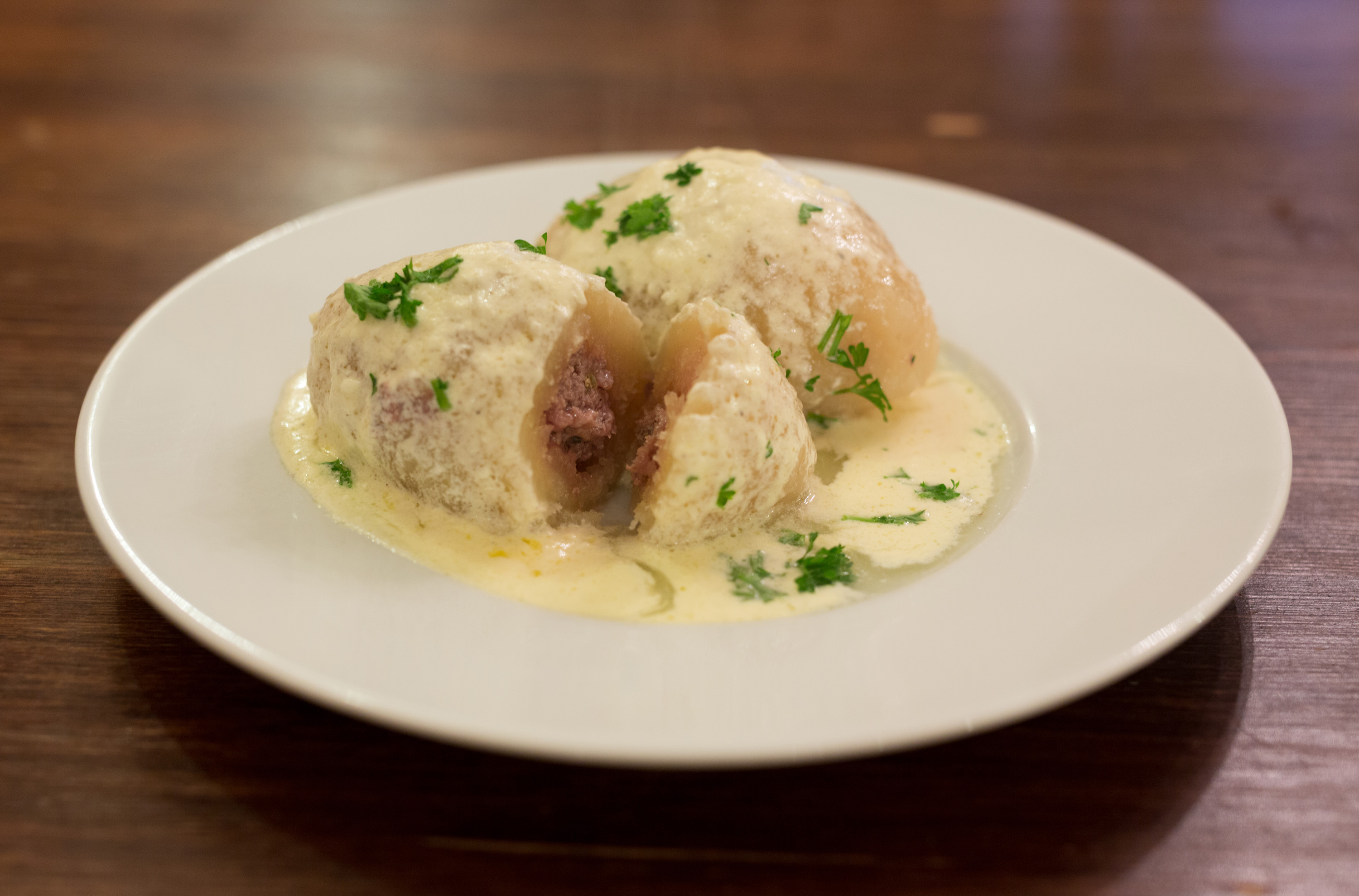 Cepelinai, or Zeppelins, taken at a restaurant in Vilnius, Lithuania.